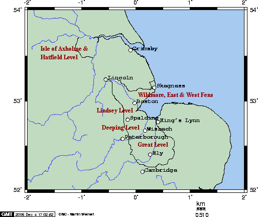 A rough map of the Fens in Eastern England